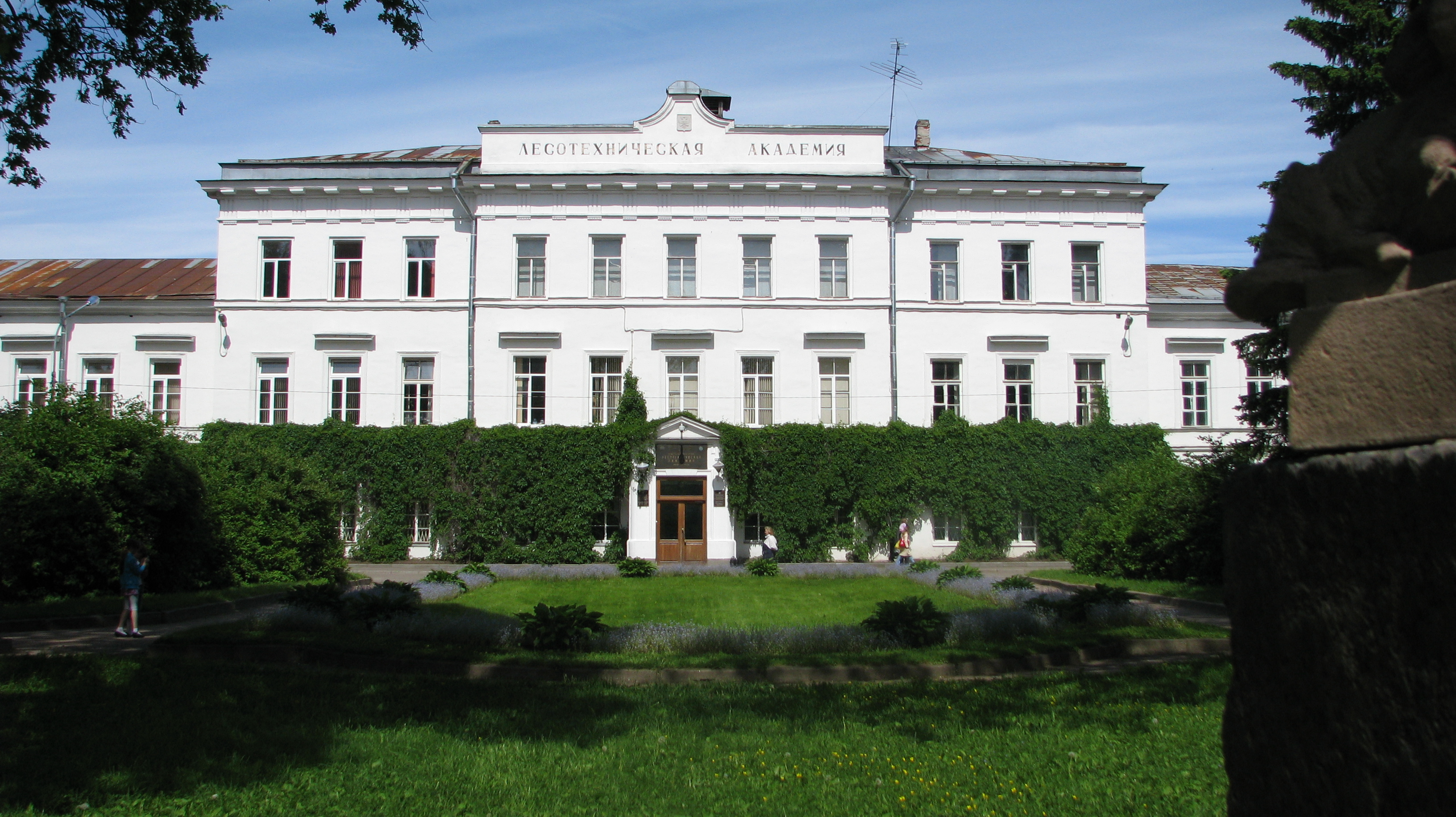 The building of Lesnaya Academy and a small part of Lesnoy’s park. Saint-Petersburg